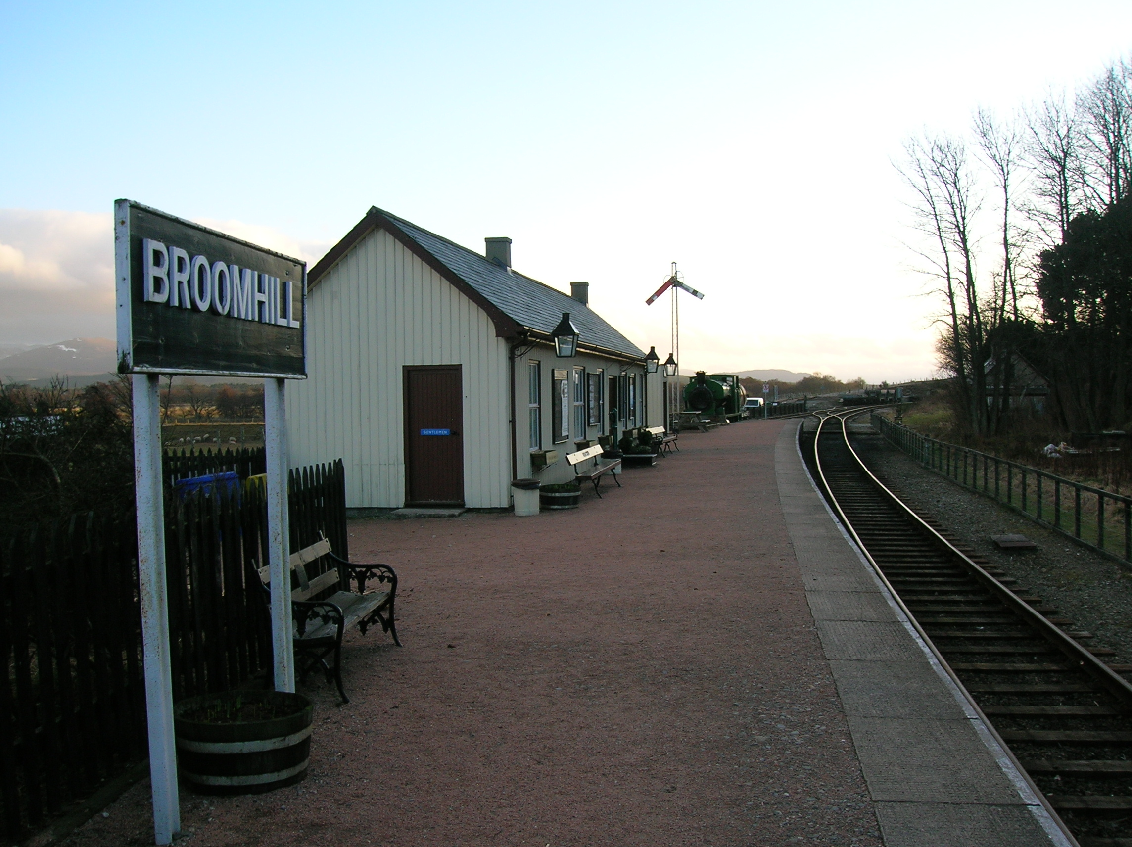 The station at Broomhill on the Strathspey railway in Scotland